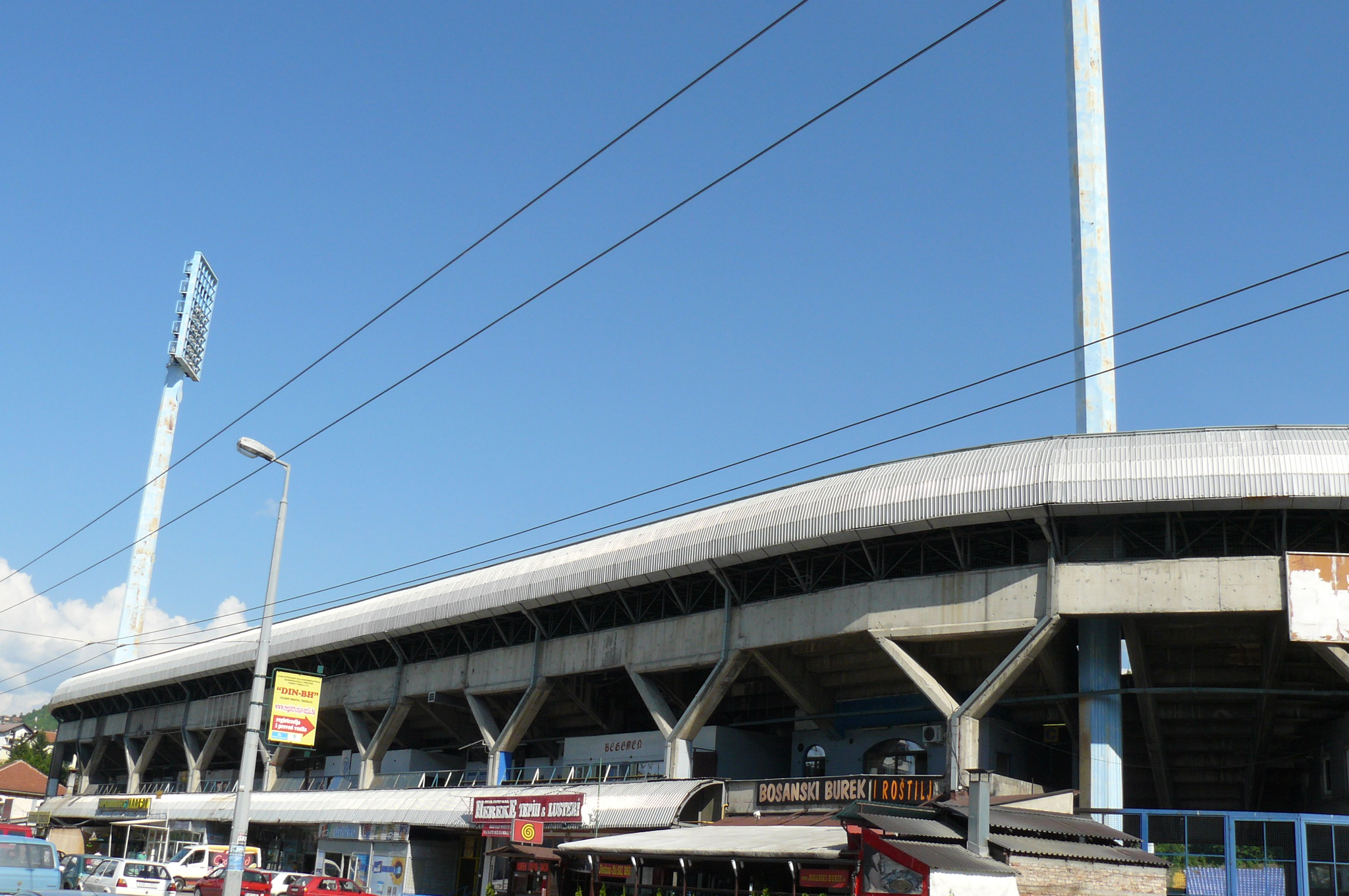 Grbavica Stadium Sarajevo.